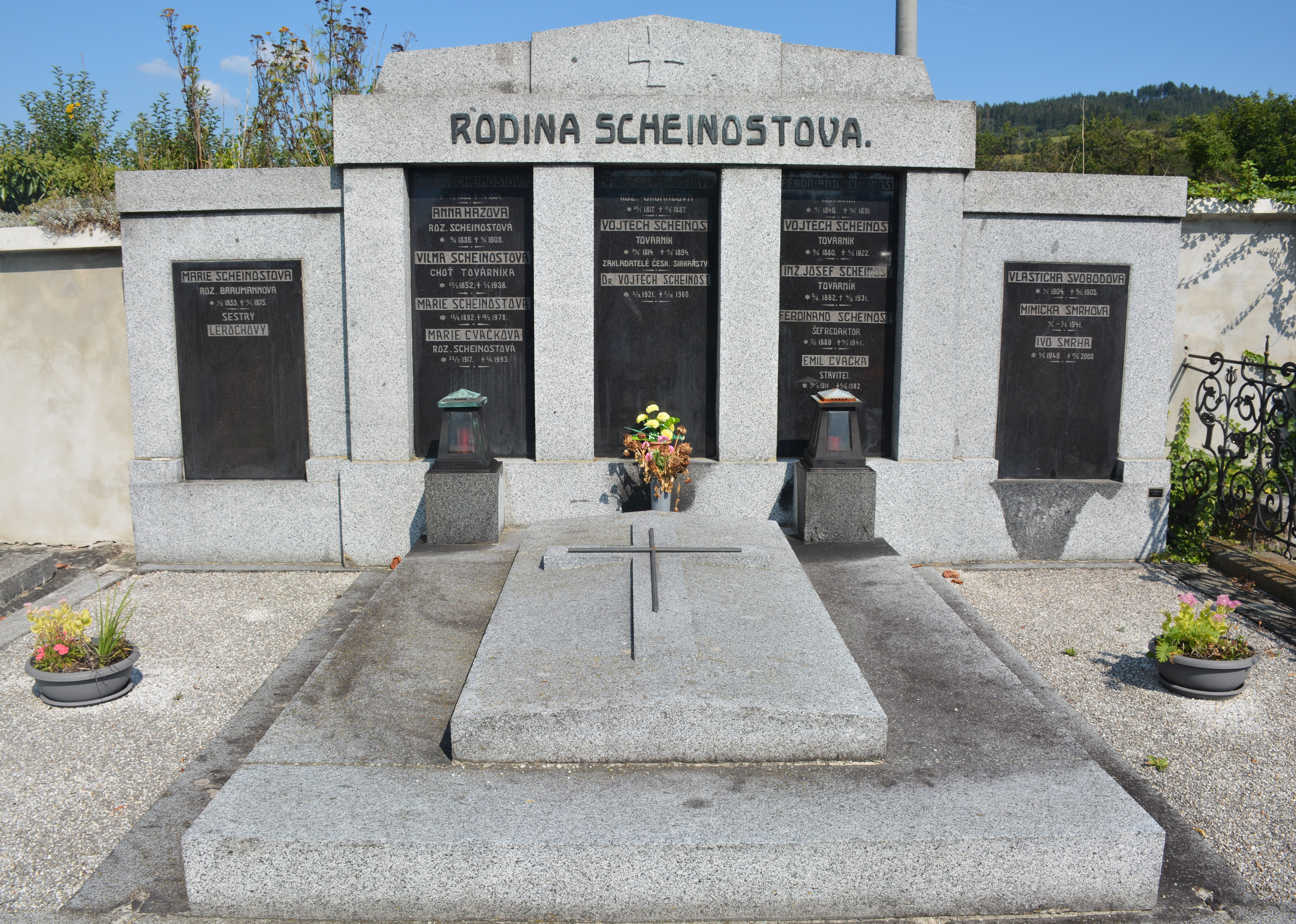 Tomb of Vojtěch Scheinost family at Sušice Cemetery, Czech Rep.